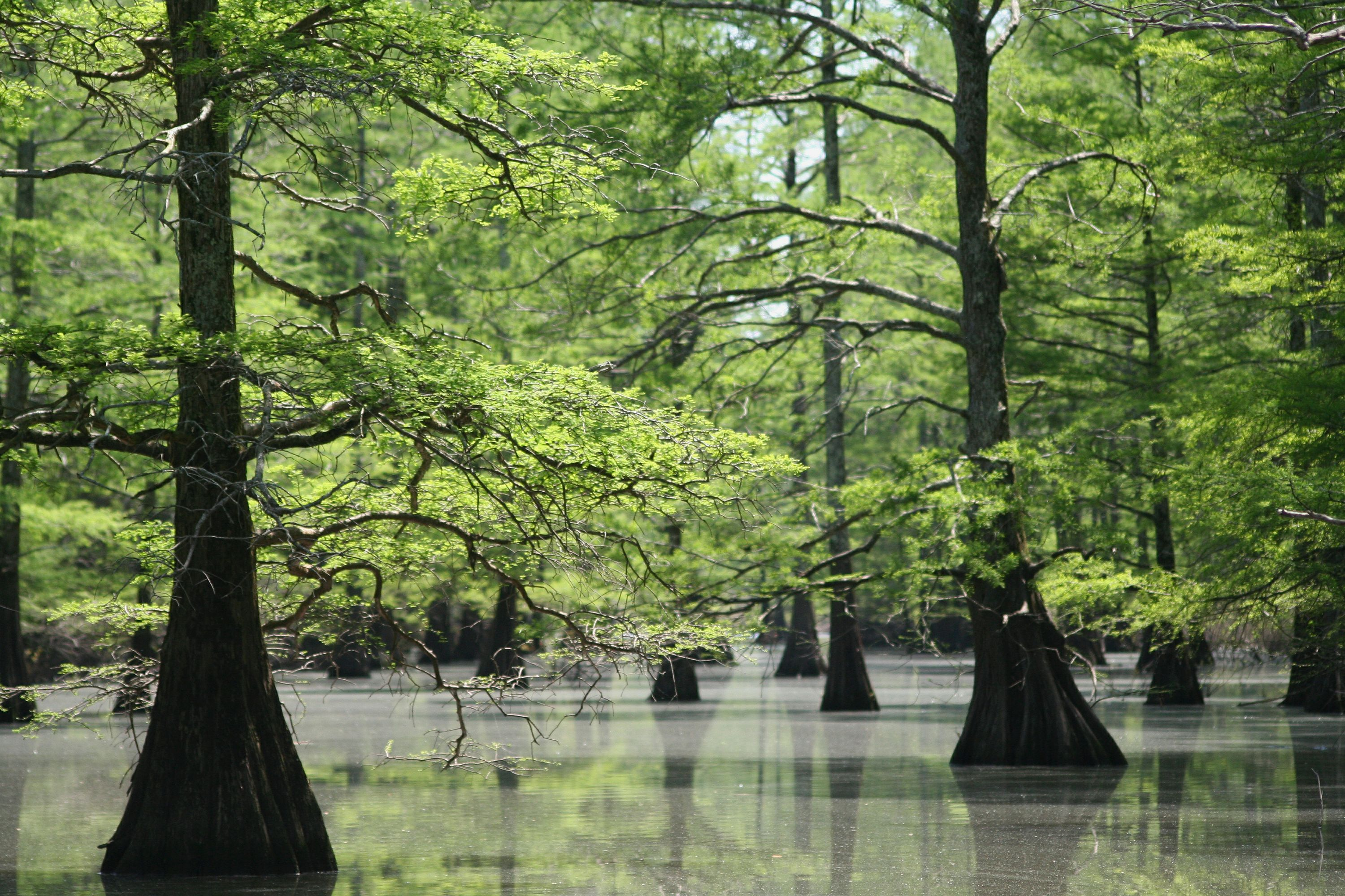 Big Lake National Wildlife Refuge, AR. Credit: Jeremy Bennett/USFWS